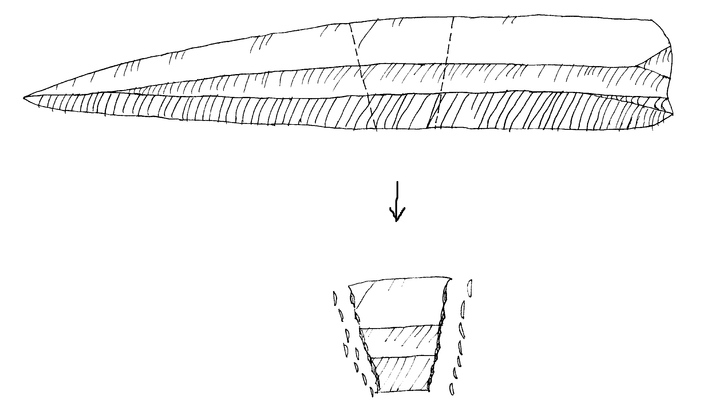 drawing of a transverse arrow head and the flint blade from whence it came